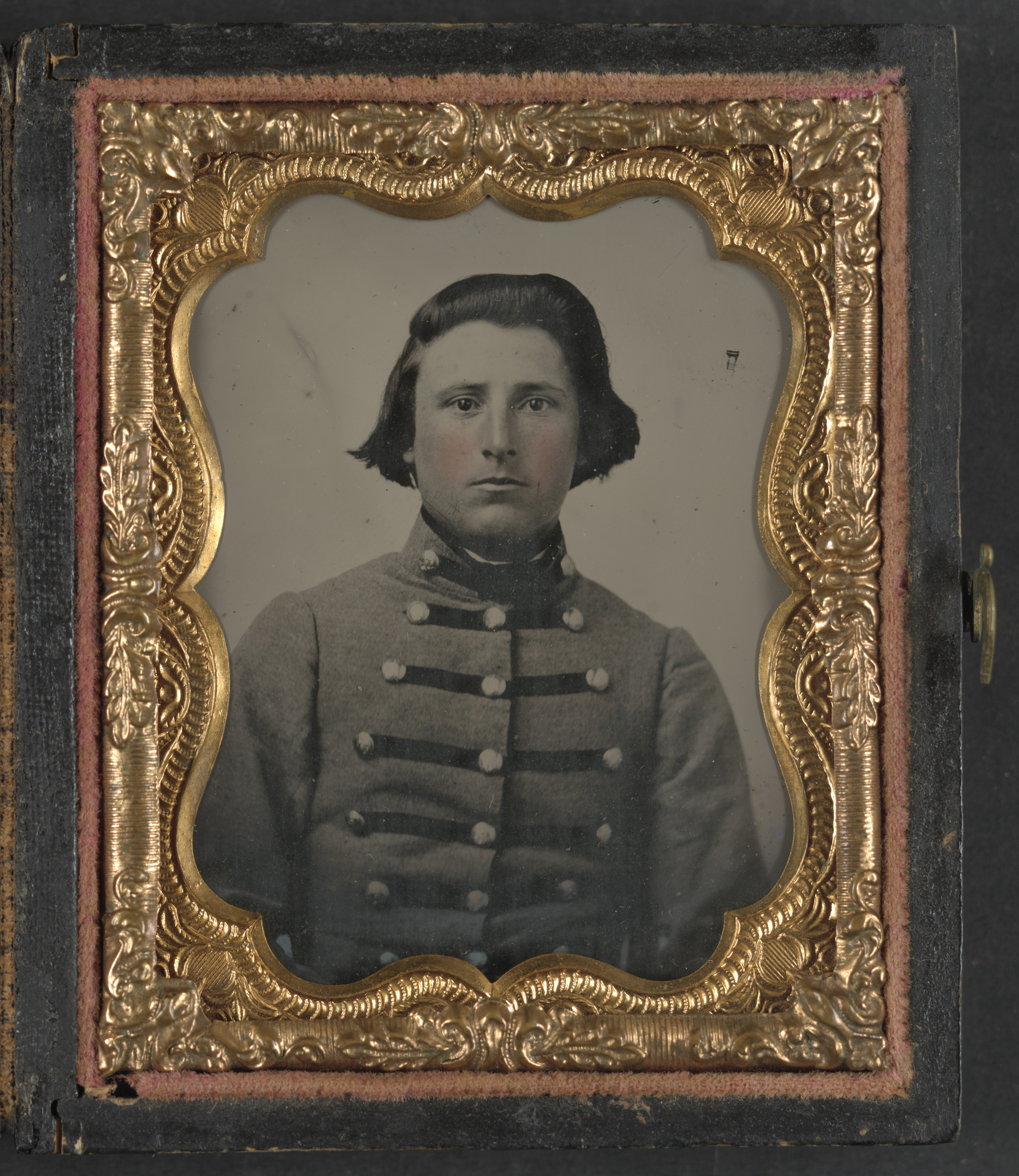 Title: Private James B. McCutchan of Co. D, 5th Virginia Infantry Regiment Abstract/medium: 1 photograph : ninth-plate ambrotype, hand-colored ; 7.2 x 6.1 cm (case)